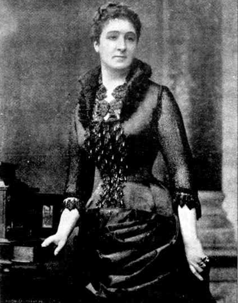 Lady Lucy Darley circa 1870